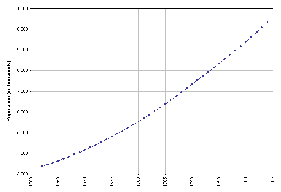 Senegal's population (1962-2004).